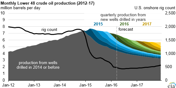 It shows lower 48 states oil production from 2012-2017.